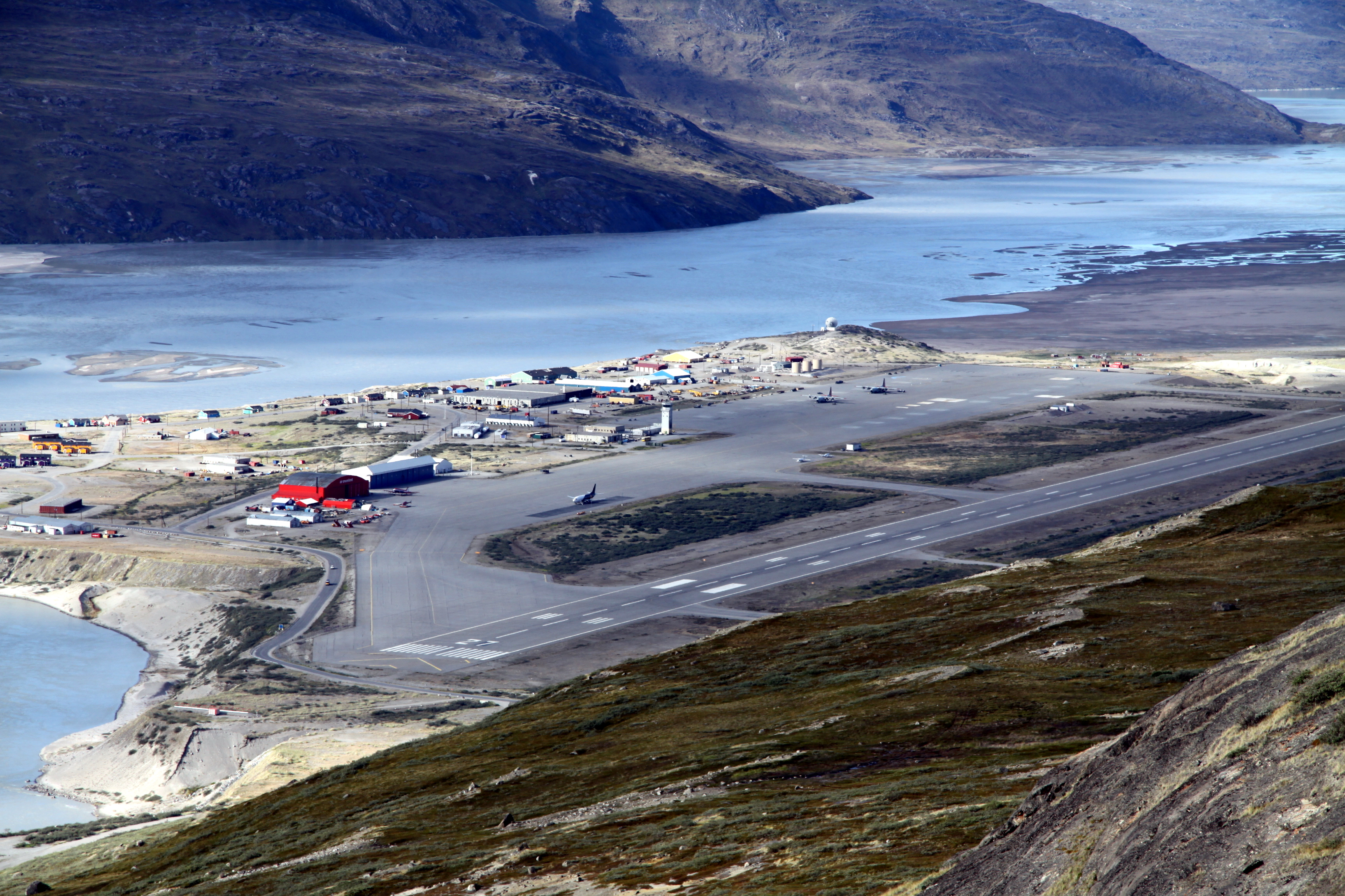 Kangerlussuaq Airport, Western Greenland